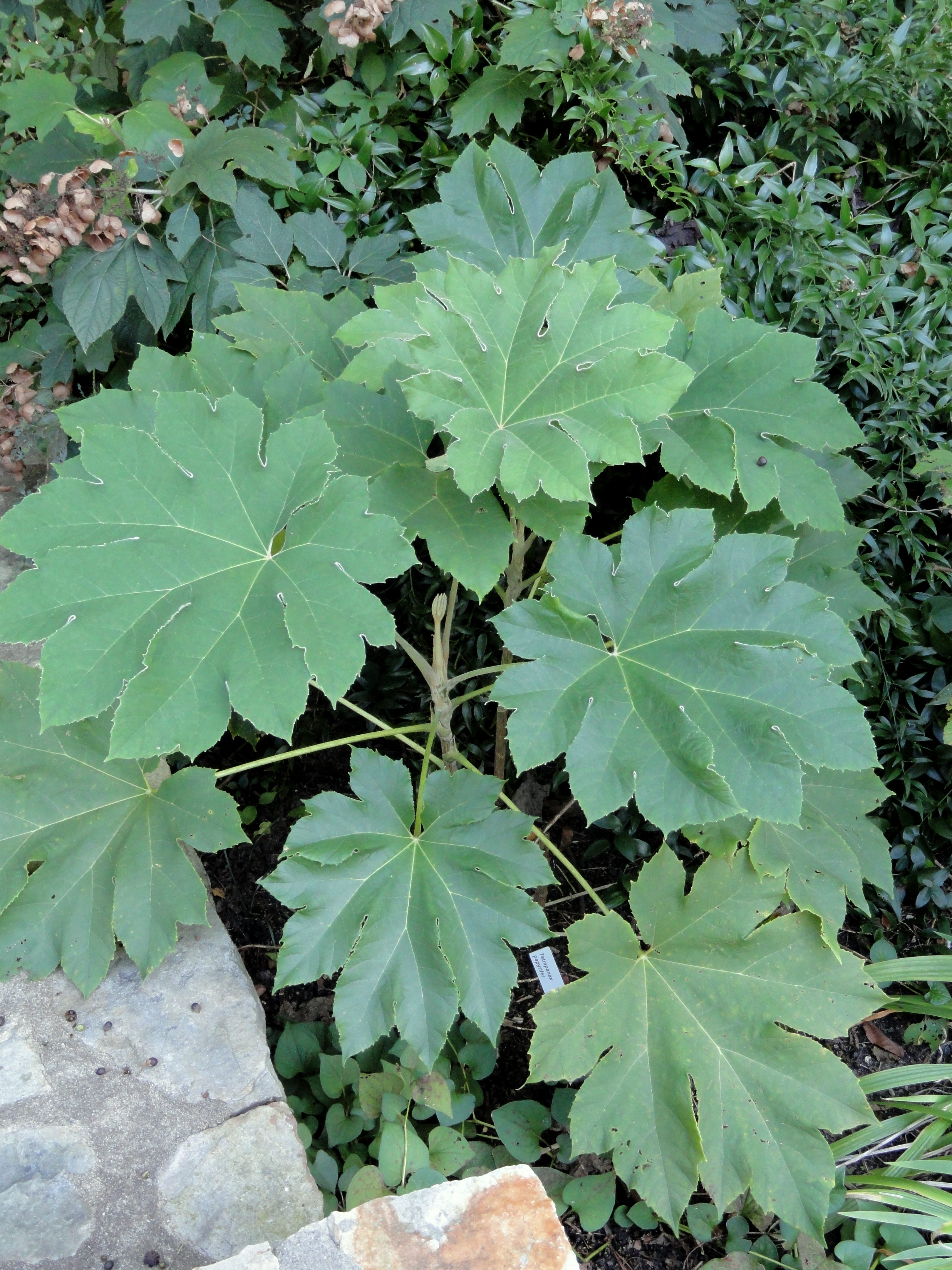 Tetrapanax papyrifer' specimen in the J. C. Raulston Arboretum (North Carolina State University), 4415 Beryl Road, Raleigh, North Carolina, USA.